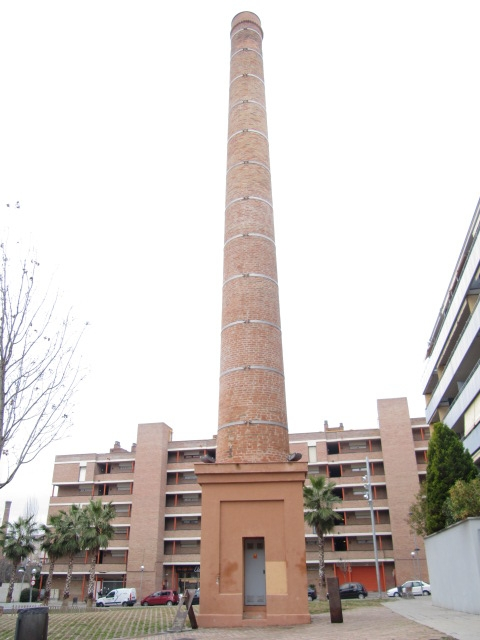 Vapor Gran del Cotó chimney (Sabadell, Vallès Occidental, Catalonia).